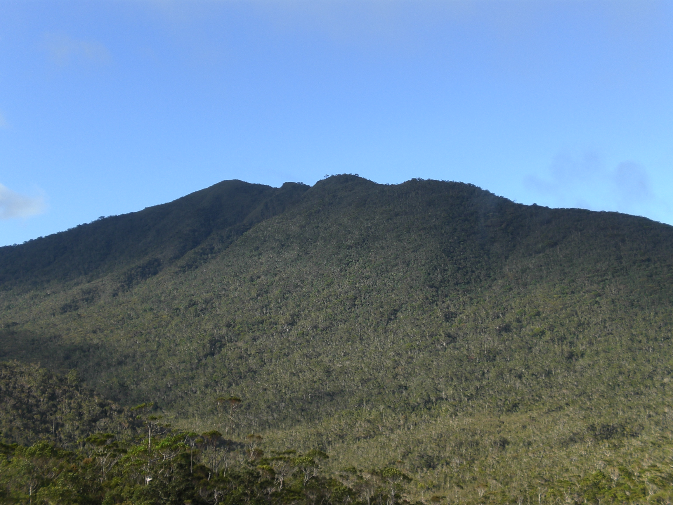 Mount Hamiguitan peak, Davao Oriental Tagalog: Bundok ng Hamiguitan sa probinsiya ng Davao Oriental